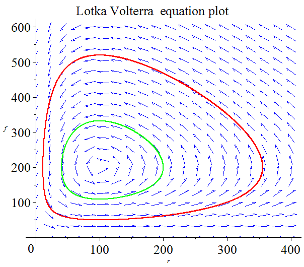 Lotka Volterra field plot